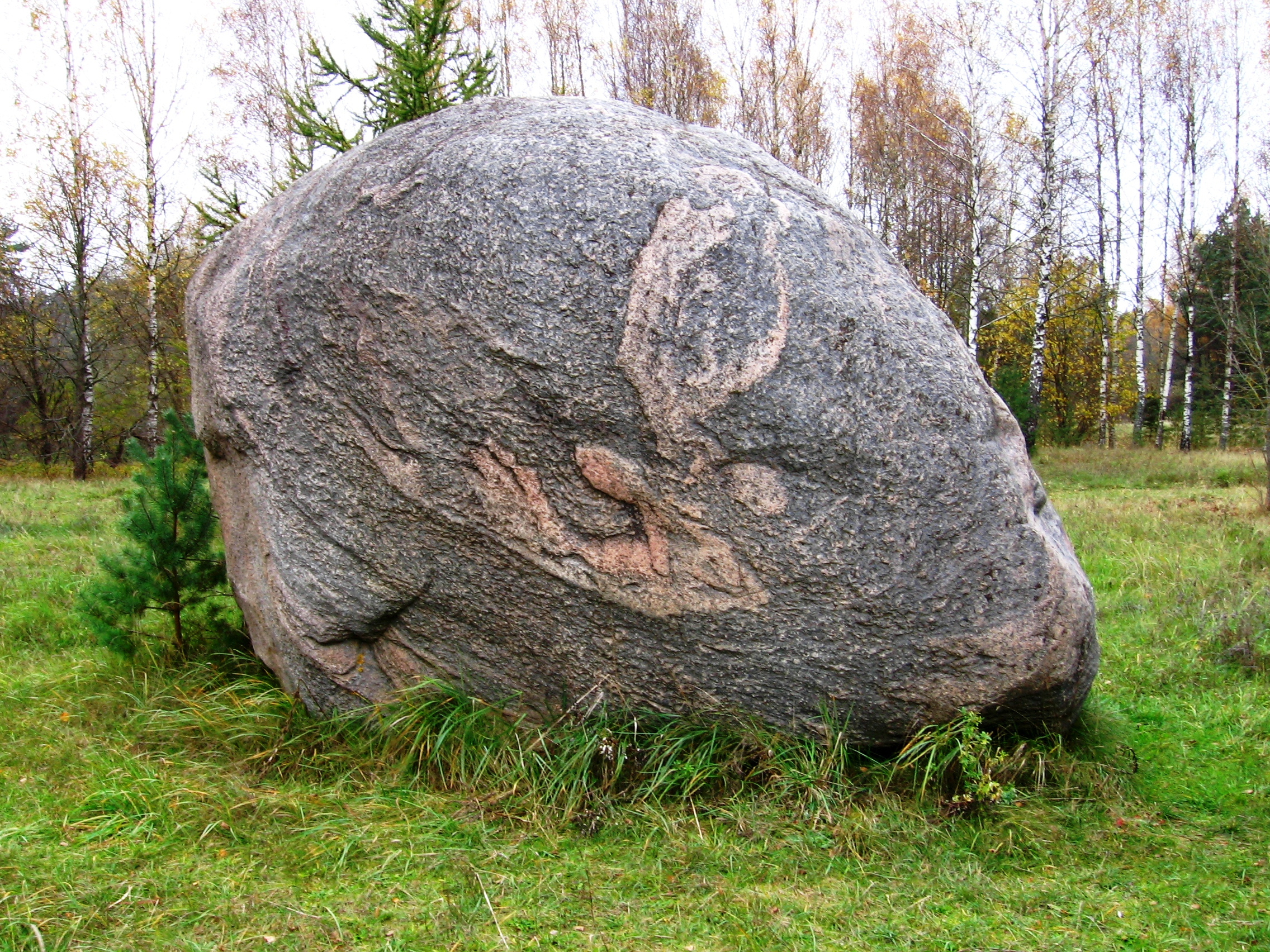 Stone of Juozapava, Ukmergė district, Lithuania